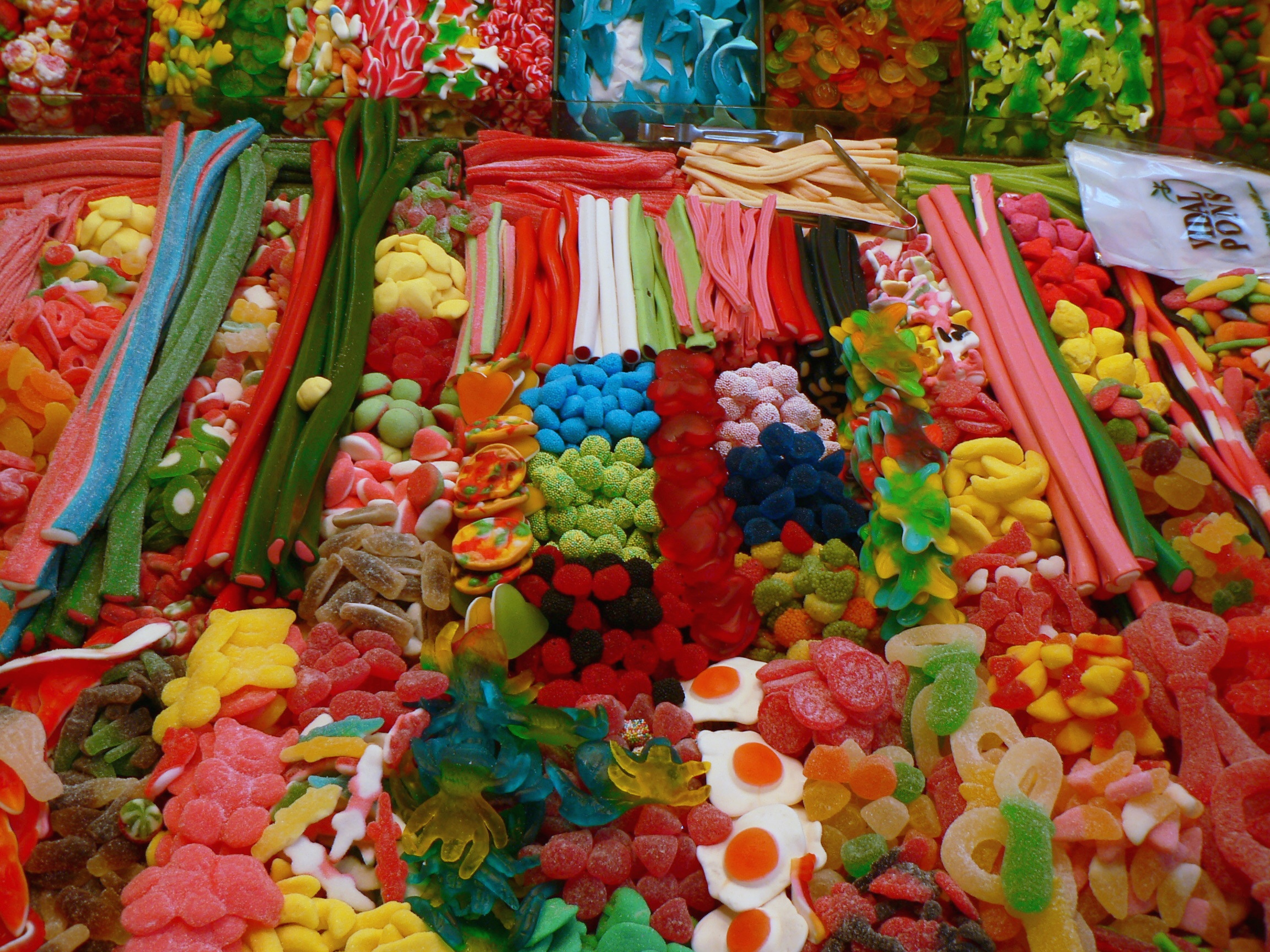 Candies, Covered Market, Barcelona, Spain